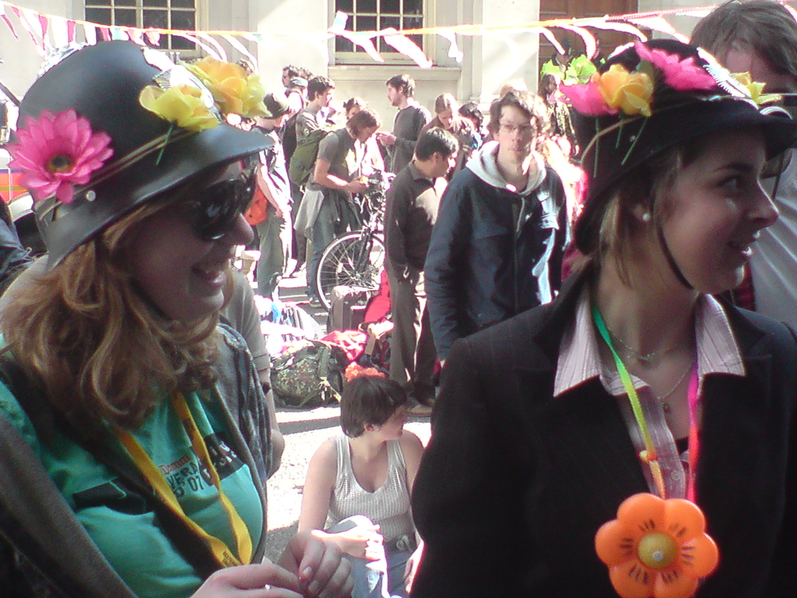 A happy carnival atmosphere at the climate camp in the city 2009